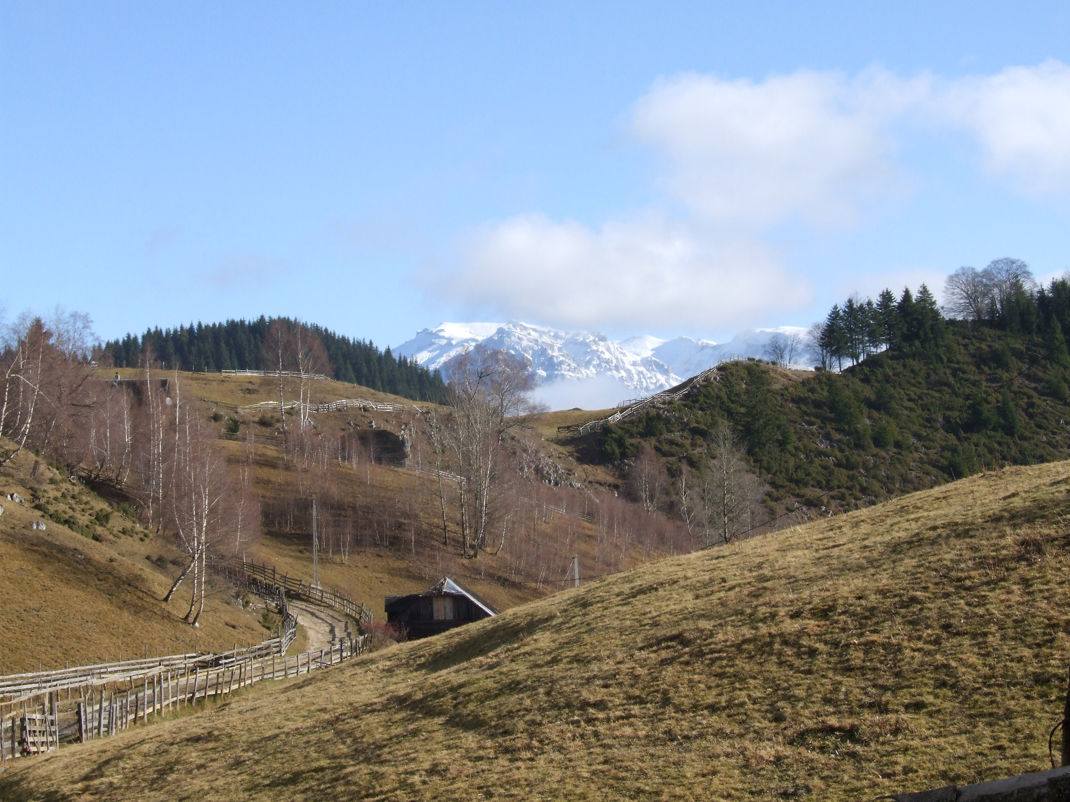 [:en:Fundata